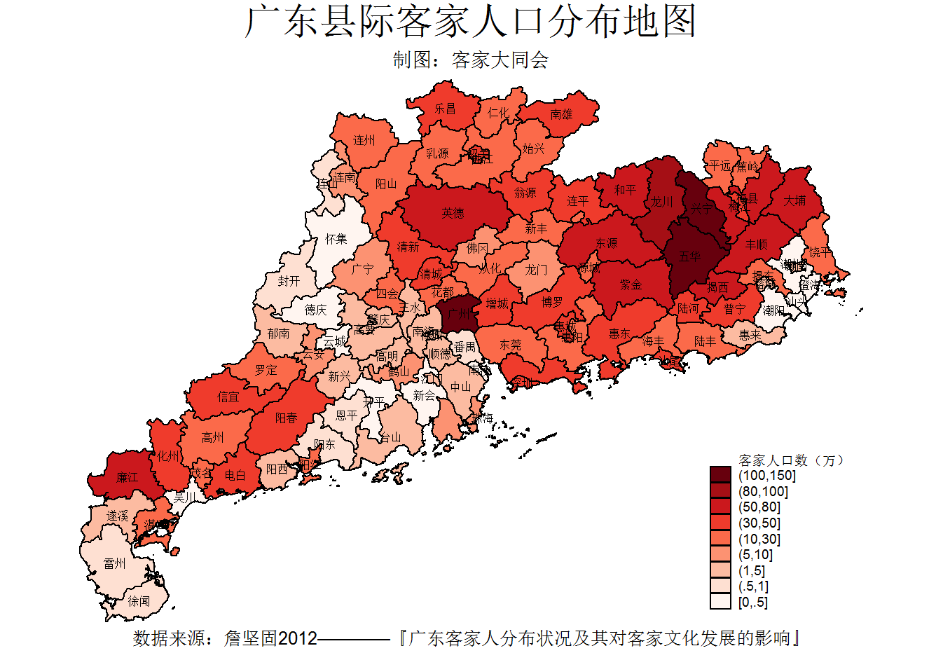 Hakka Population in county level of Guangdong